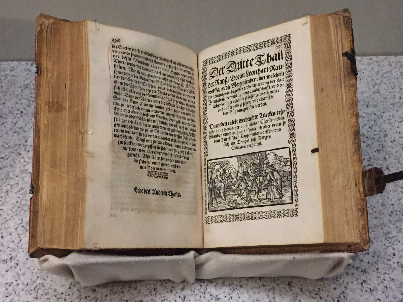 Leonard Rauwolf, Eigentliche Beschreibung der Reise in die Morgenländer. Lauingen, 1582. Deutsches Historisches Museum, Berlin